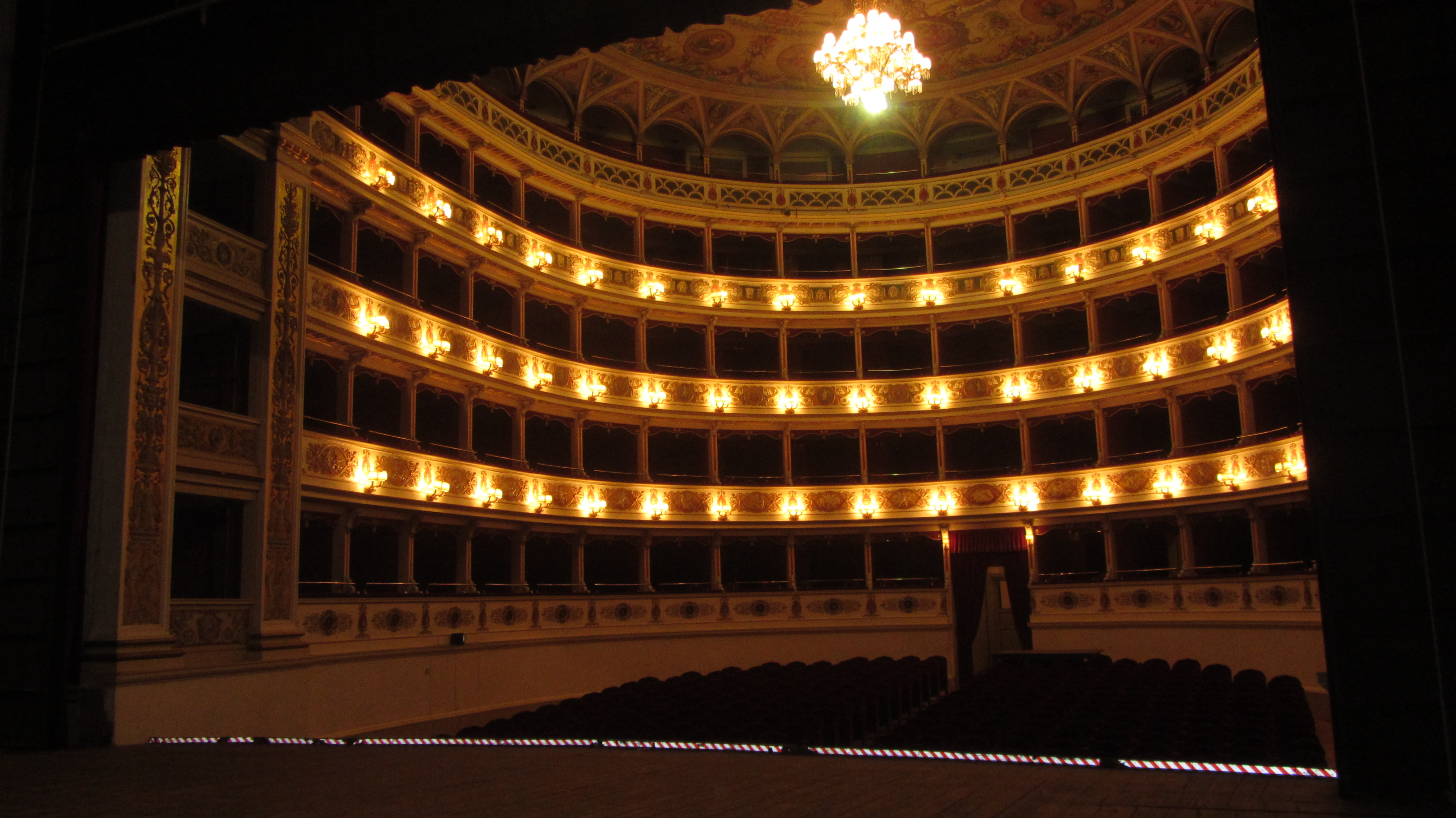 Inside view of the "Gian Carlo Menotti Theatre" from the boards